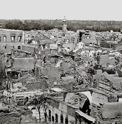 Glass-photo, ca 1860, of the destruction of the Christian Quarter in Damascus in 1860. The violent incident started on the 9th of July, when a mob of 20,000-50,000 from the Maidan, and Salihya districts of Damascus attacked, killed and pillaged the Christian Quarter and its inhabitants, 5,000 to 12,000 were estimated to have perished. The Greek Orthodox, the Greek Catholic and the Armenian churches were the first to be burned. The Russian consulate was the first to be attacked, followed by the French, then the Dutch, Austrian, Belgian and the American consulates. Abdu Costi, the American Consul was beaten and left for dead. The Prussian and the English Consulates were saved. "AN OCCASION FOR WAR, Leila Tarazi Fawaz, University of California Press, 1994". Abdul Qadir al-Jazairi, the exiled Algerian hero, along with his 1000 volunteers protected most of the Diplomats, and thousands of Christians in his houses. He was awarded the highest medals by the European governments. The building on the left is the French Lazarists Monastery and school burned by the attackers.